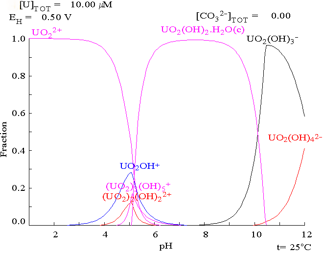 I drew it with Medusa